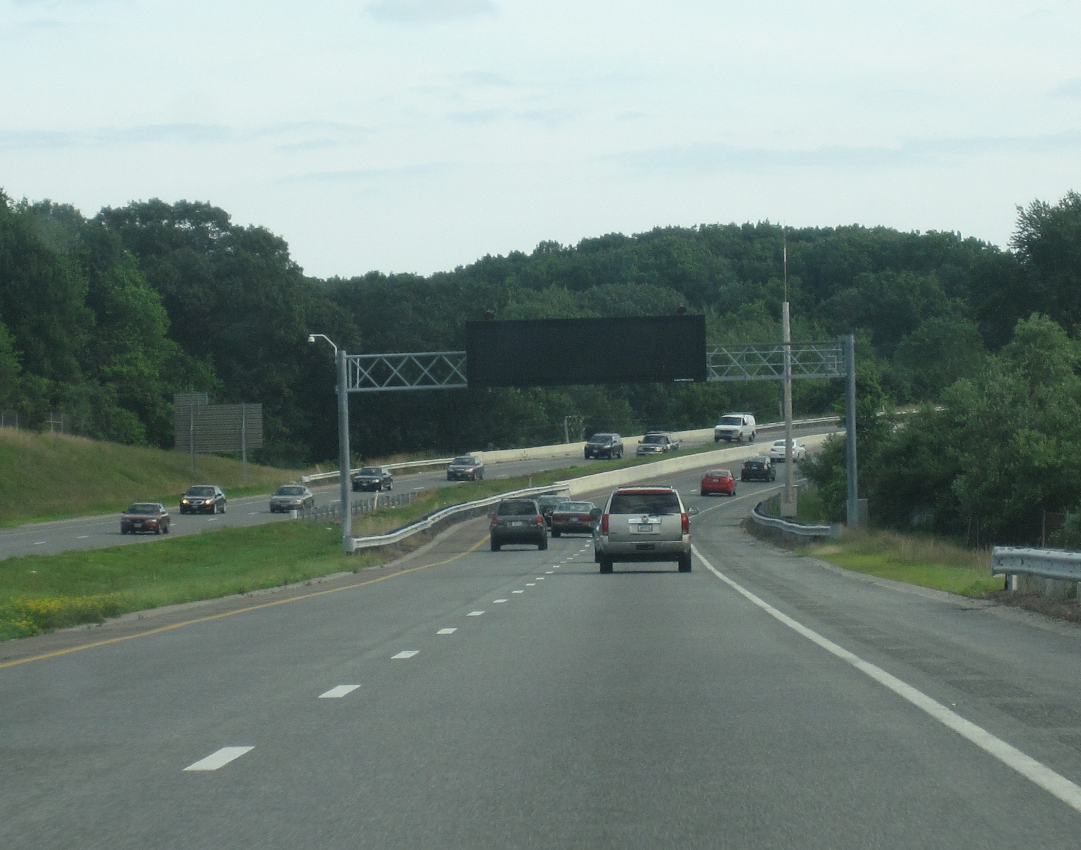 RI Route 4 freeway heading southbound in North Kingstown, Rhode Island